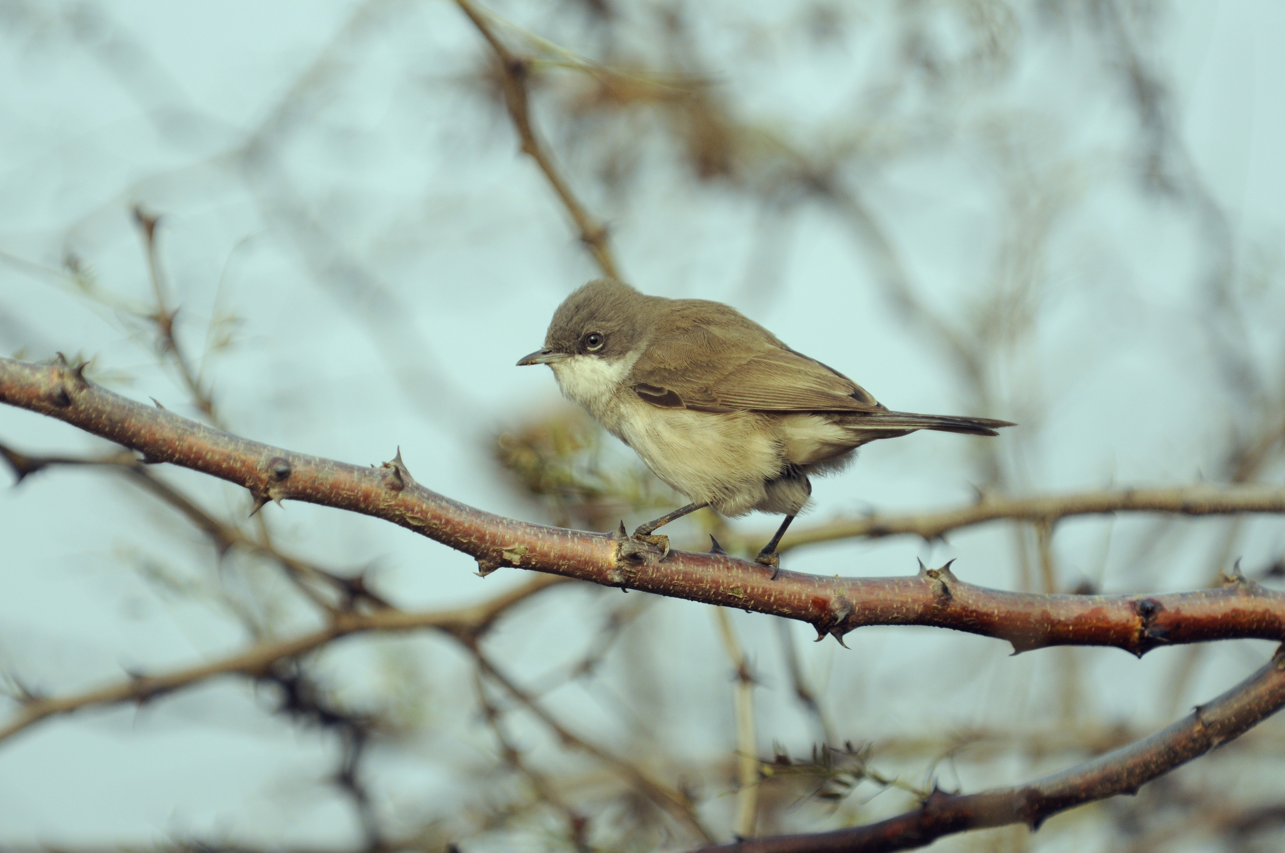 Lesser Whitethroat Sylvia curruca in the Aravalli Biodiversity Park Gurgaon, Haryana, India